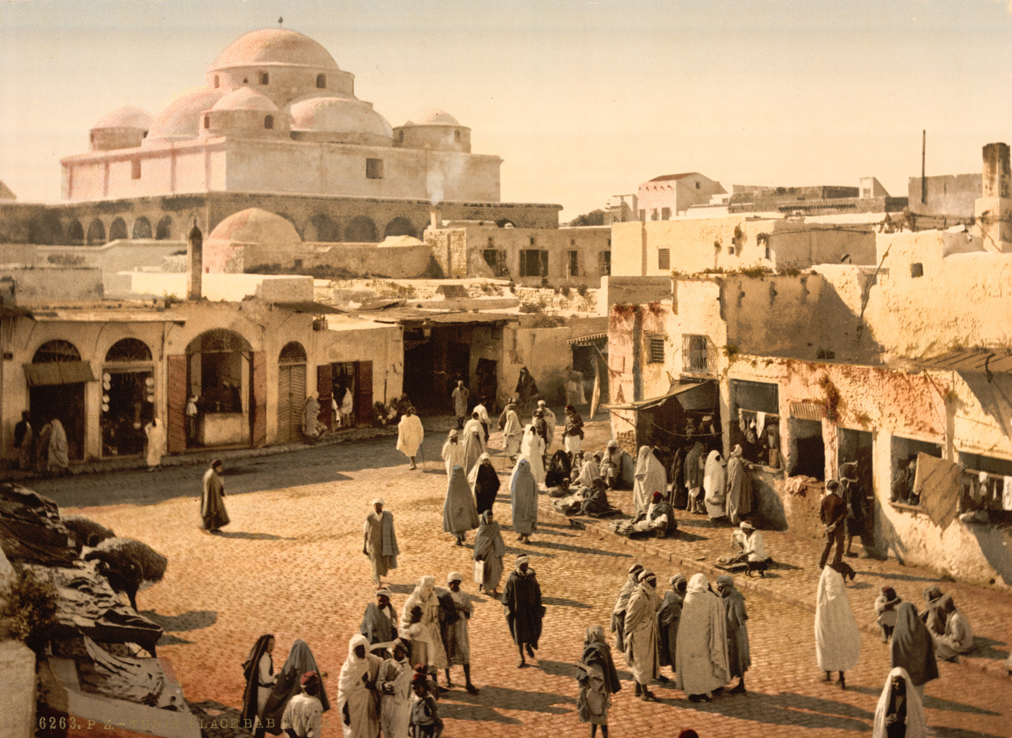 Taken from the Detroit Publishing Co. Collection at the U.S. Library of Congress. [PD] This picture is in the public domain.